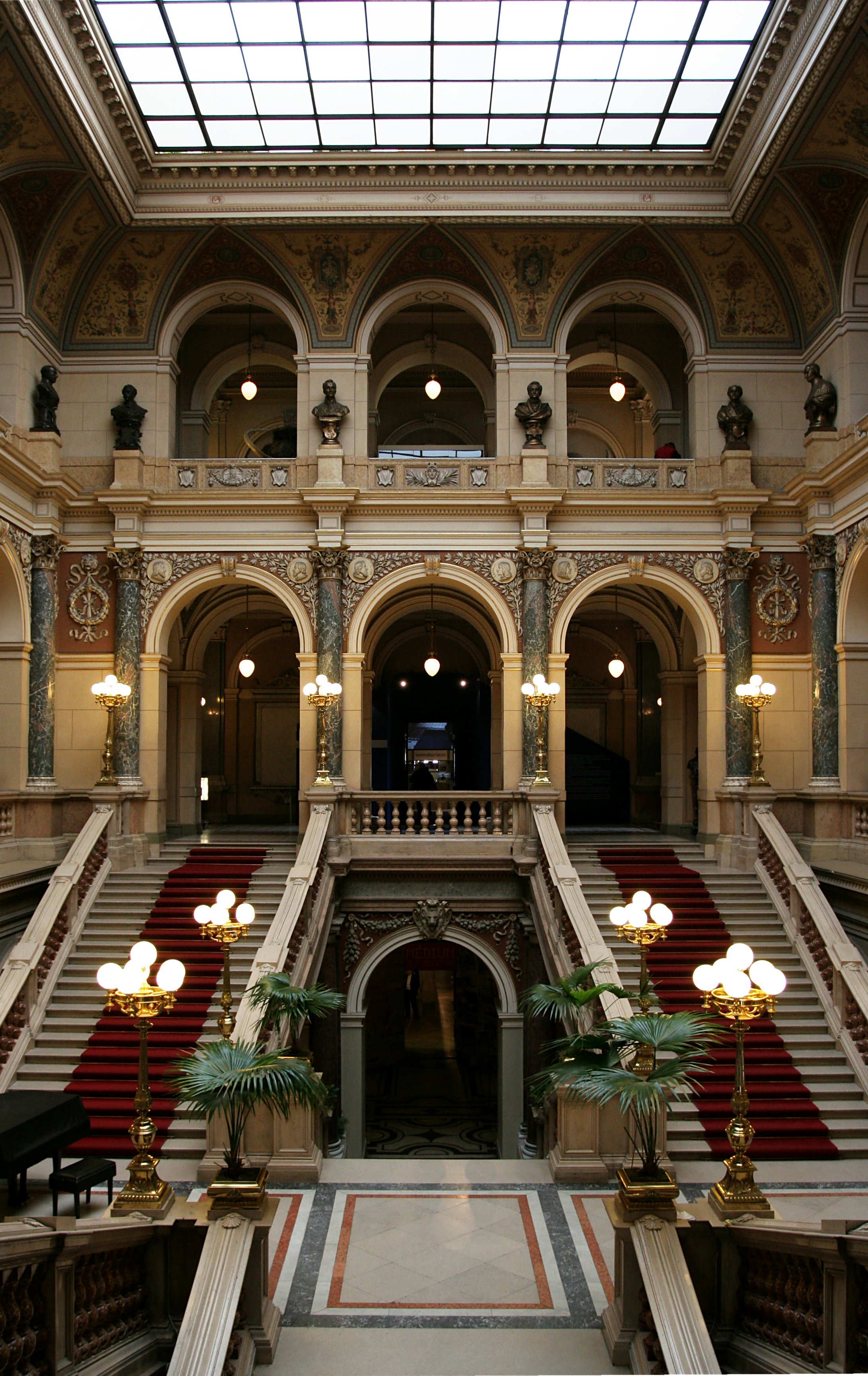 Main staircase of Národní muzeum (National Museum) in Prague